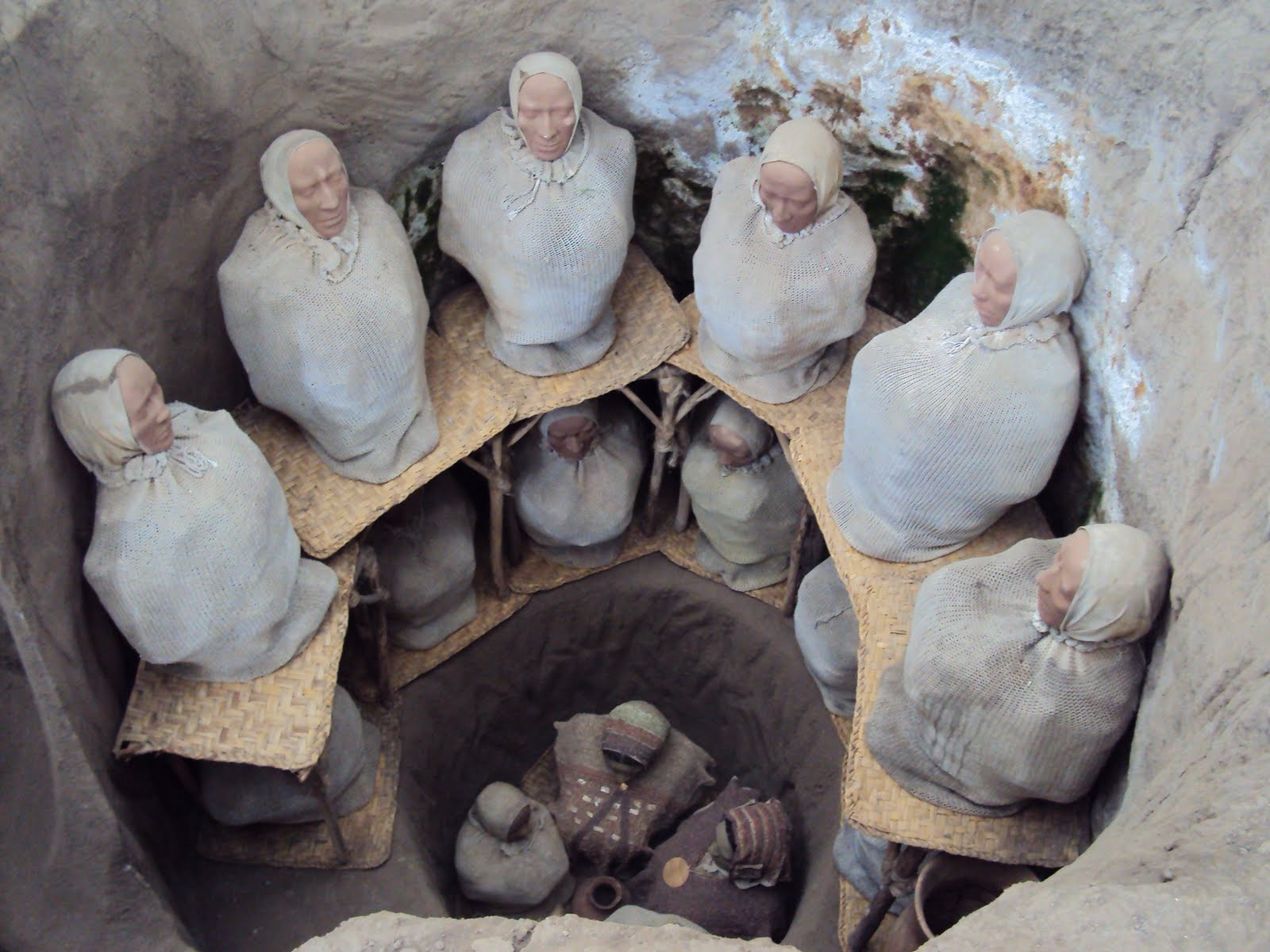 Mummies in La Florida site in Quito